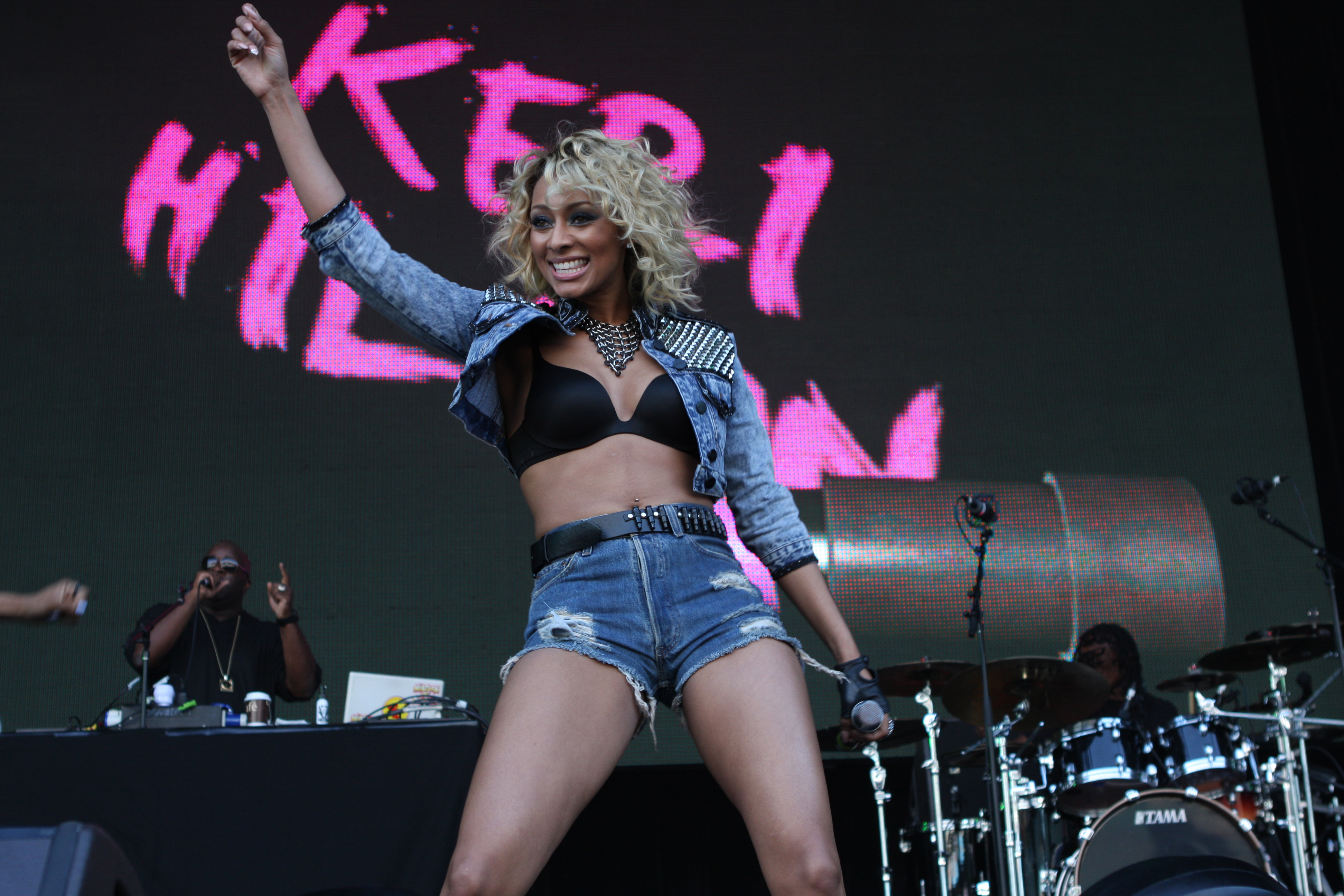 Keri Hilson performing at Supafest in Australia, April 2011